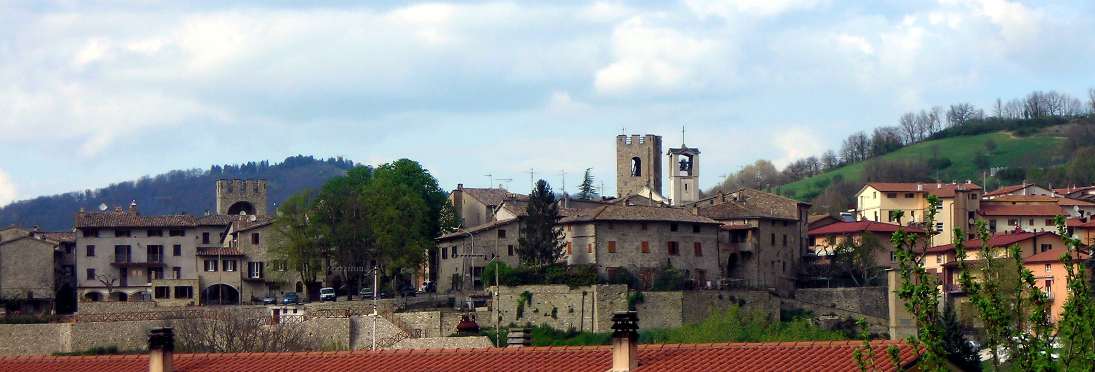 view of Valfabbrica, Perugia, Umbria, Italy